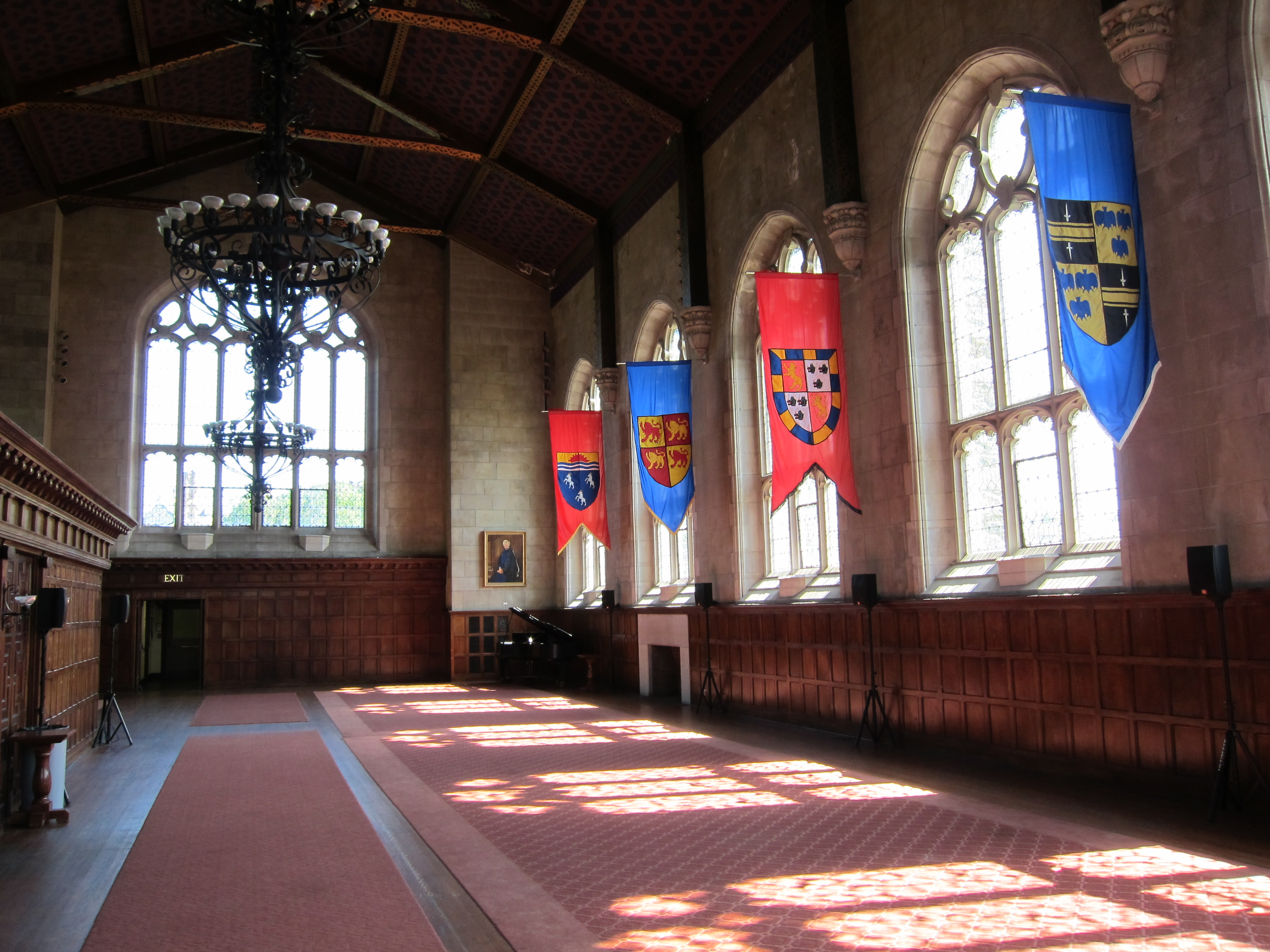 Interior of Thomas Great Hall at Bryn Mawr College, Pennsylvania.